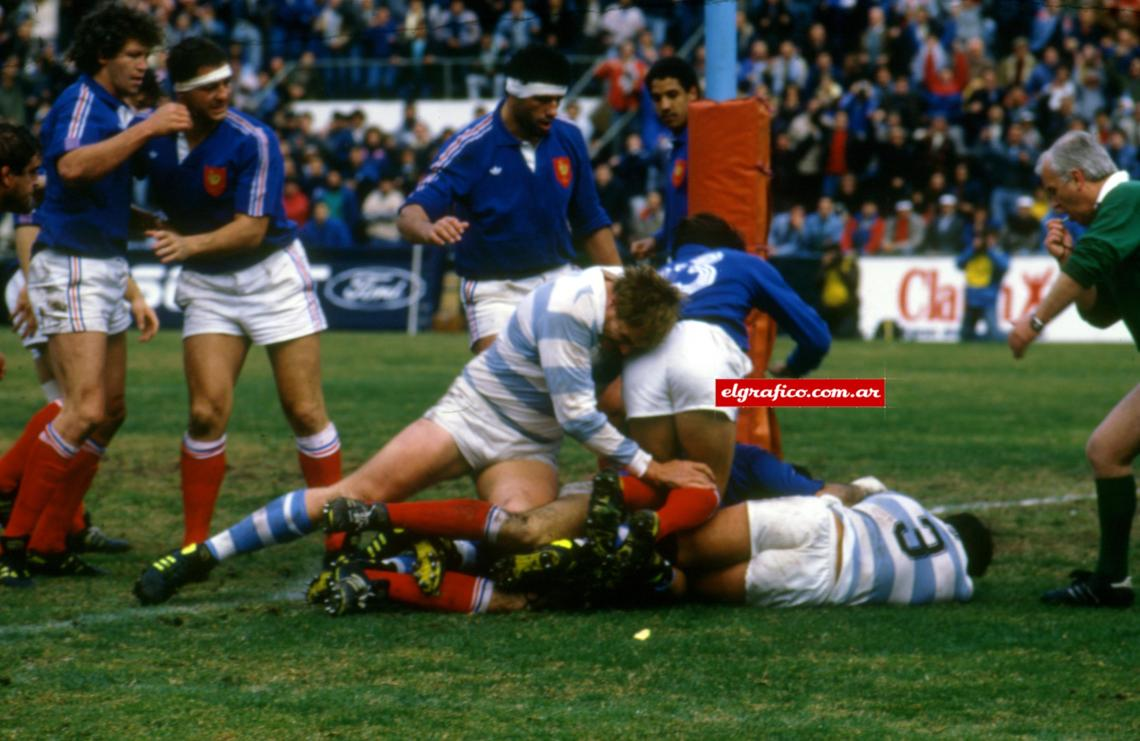 The match